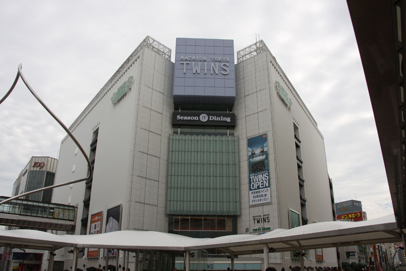 Machida Tokyu TWINS EAST, opend in Oct. 5, 2007, in Machida, Tokyo, Japan.